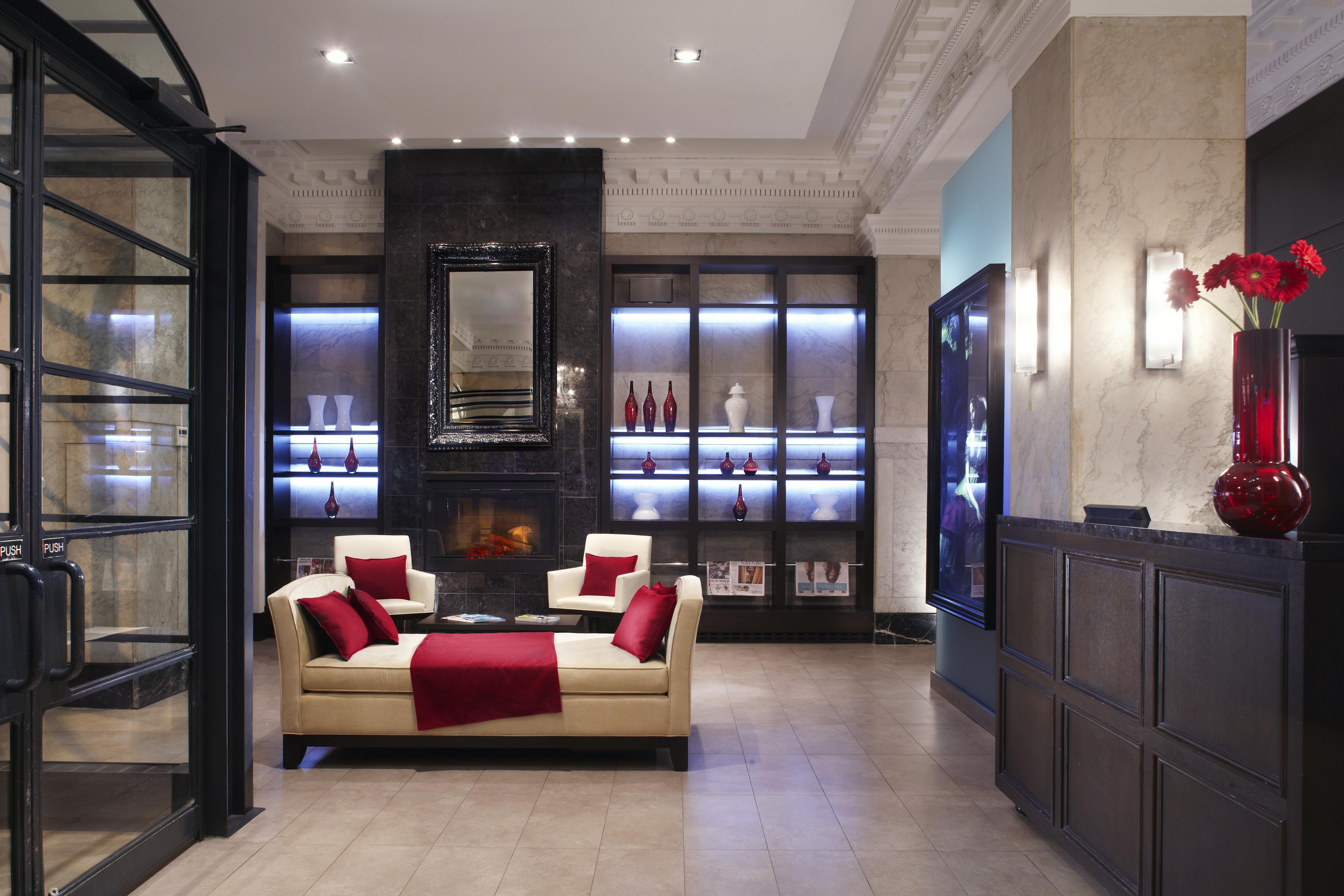 A photograph of the Hotel Victoria lobby, taken in 2011, after a major renovation. The Hotel Victoria is a boutique hotel located at 56 Yonge St., in downtown Toronto.